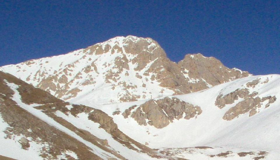 I took this picture for wiki